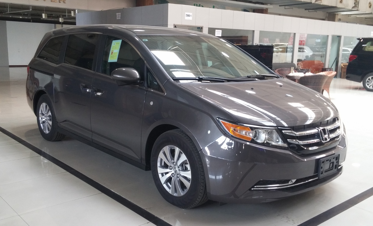 Honda Odyssey US IV photographed in Beijing, China.